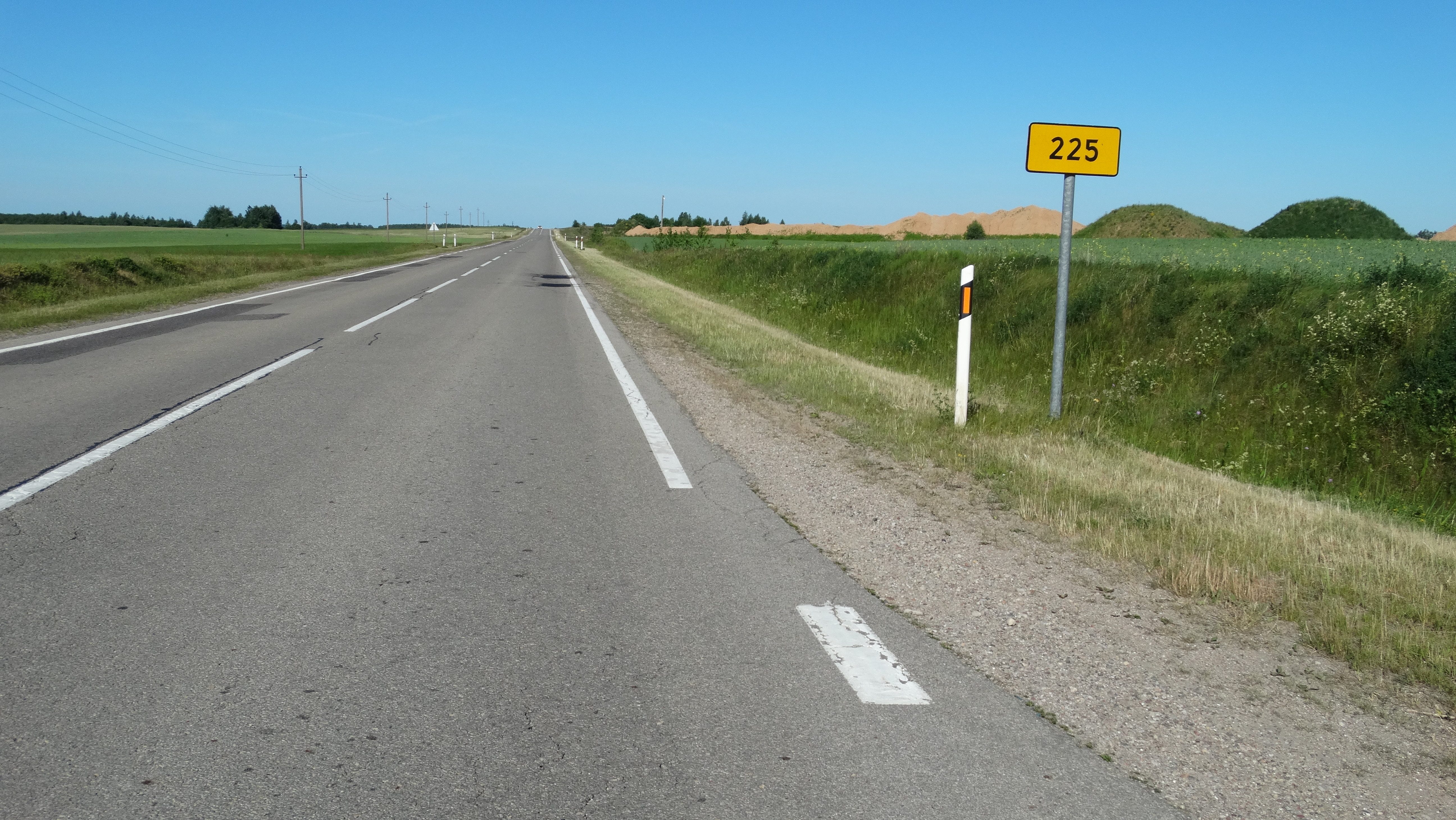 Road KK225 by Puodžiai quarry, Raseiniai District, Lithuania